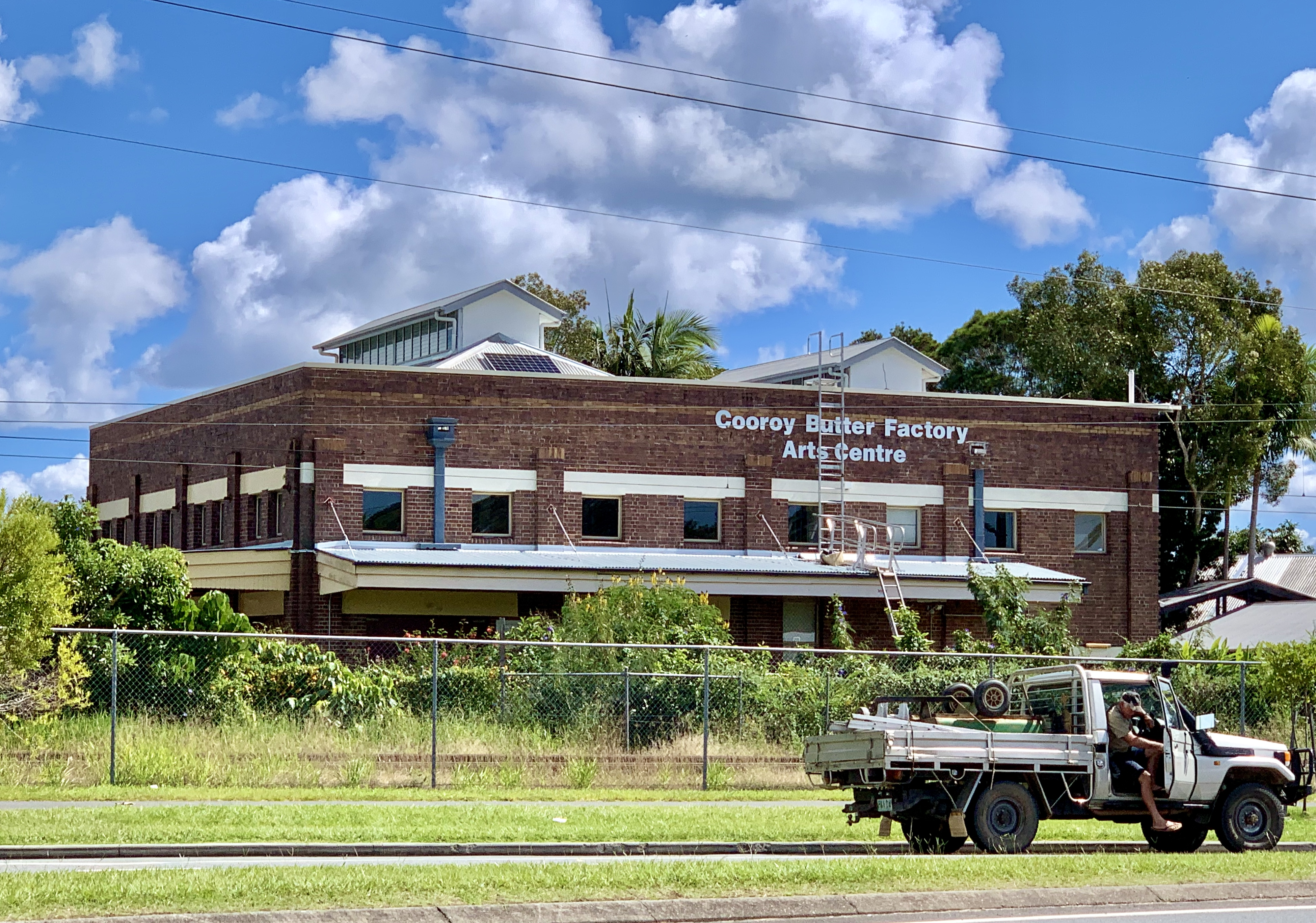 Cooroy Butter Factory Arts Centre, Art gallery in Cooroy, Queensland